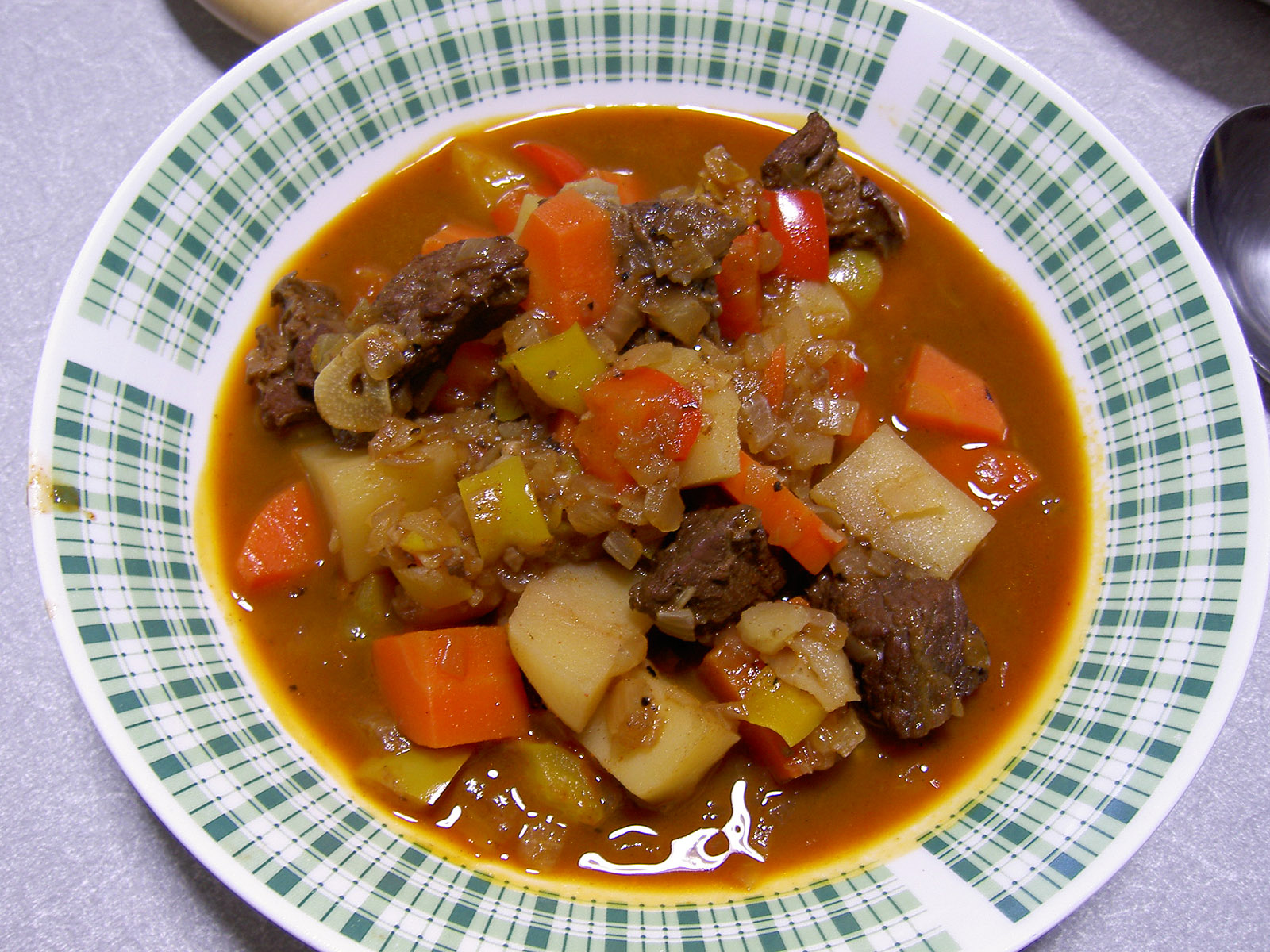 Hungarian Gulyás made in Osaka, Japan